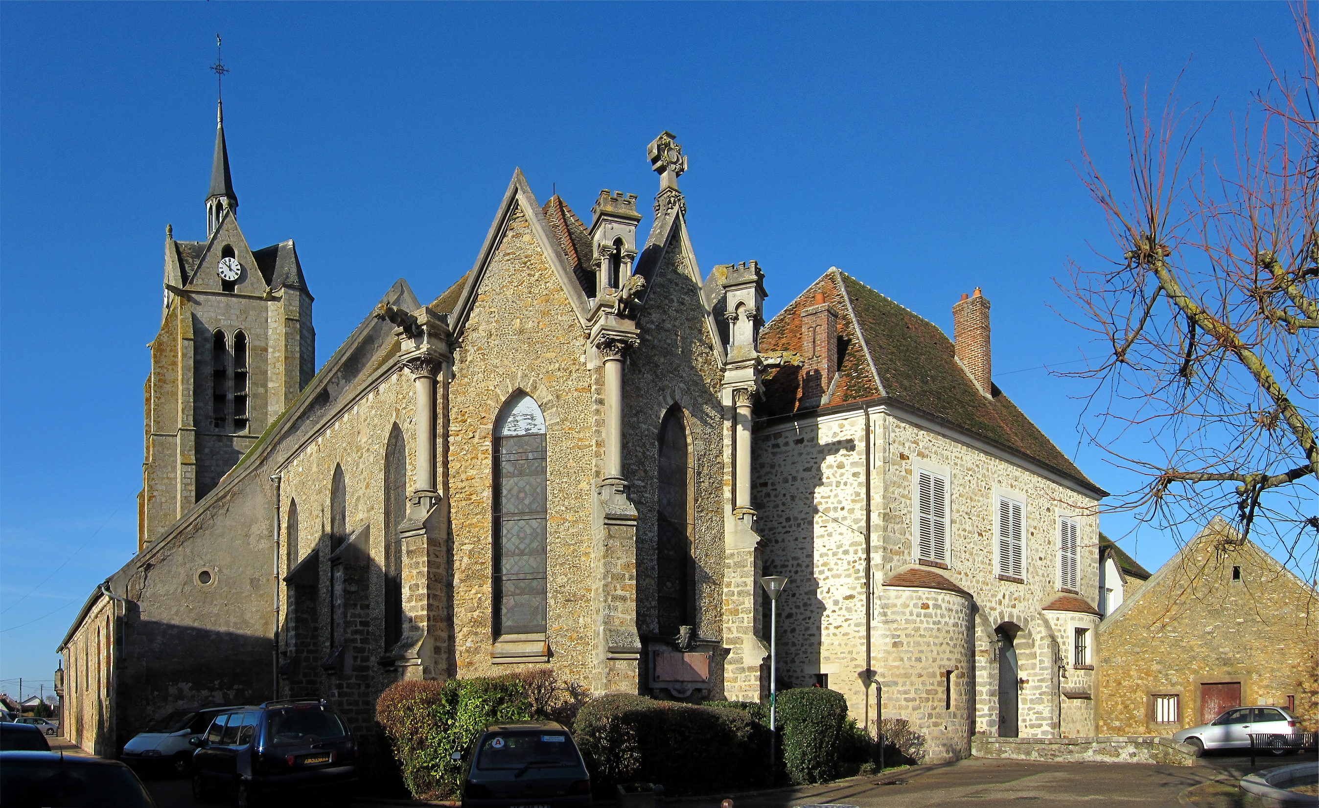 Saint-Germain-d'Auxerre church in Mormant (Seine-et-Marne, France). Its bell tower is from the 13th century, the church itself being rebuilt in 1880.